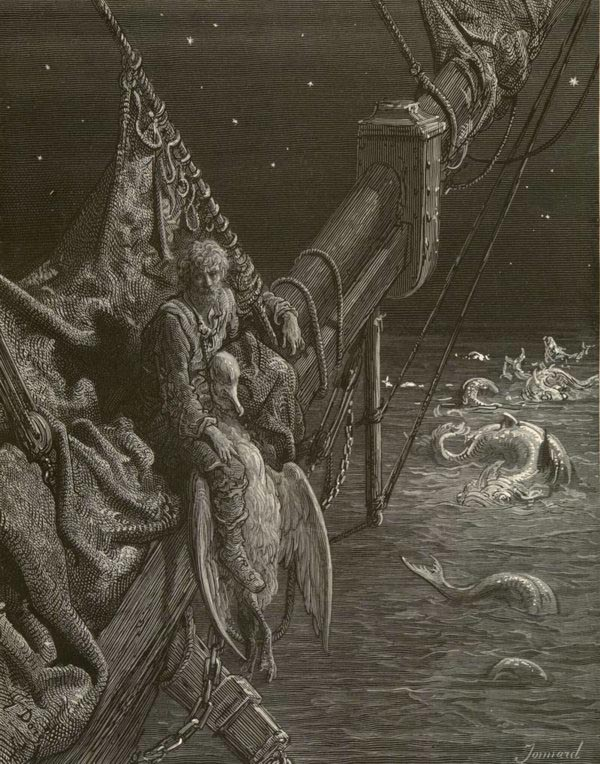 Engraving by Gustave Doré for an 1876 edition of Samuel Taylor Coleridge's The Rime of the Ancient Mariner. Captioned "I Watched the Water-Snakes," it depicts a sailor on the bowsprit of a sailing ship tied to a dead albatross, with water-serpents in the sea around him.